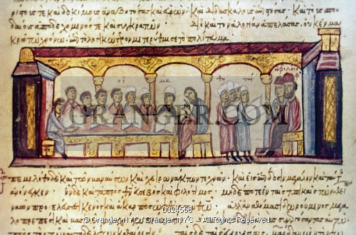 A school in philosophy at Constantinople. Illumination from Skylitzes codex, 13th-14th centuries.